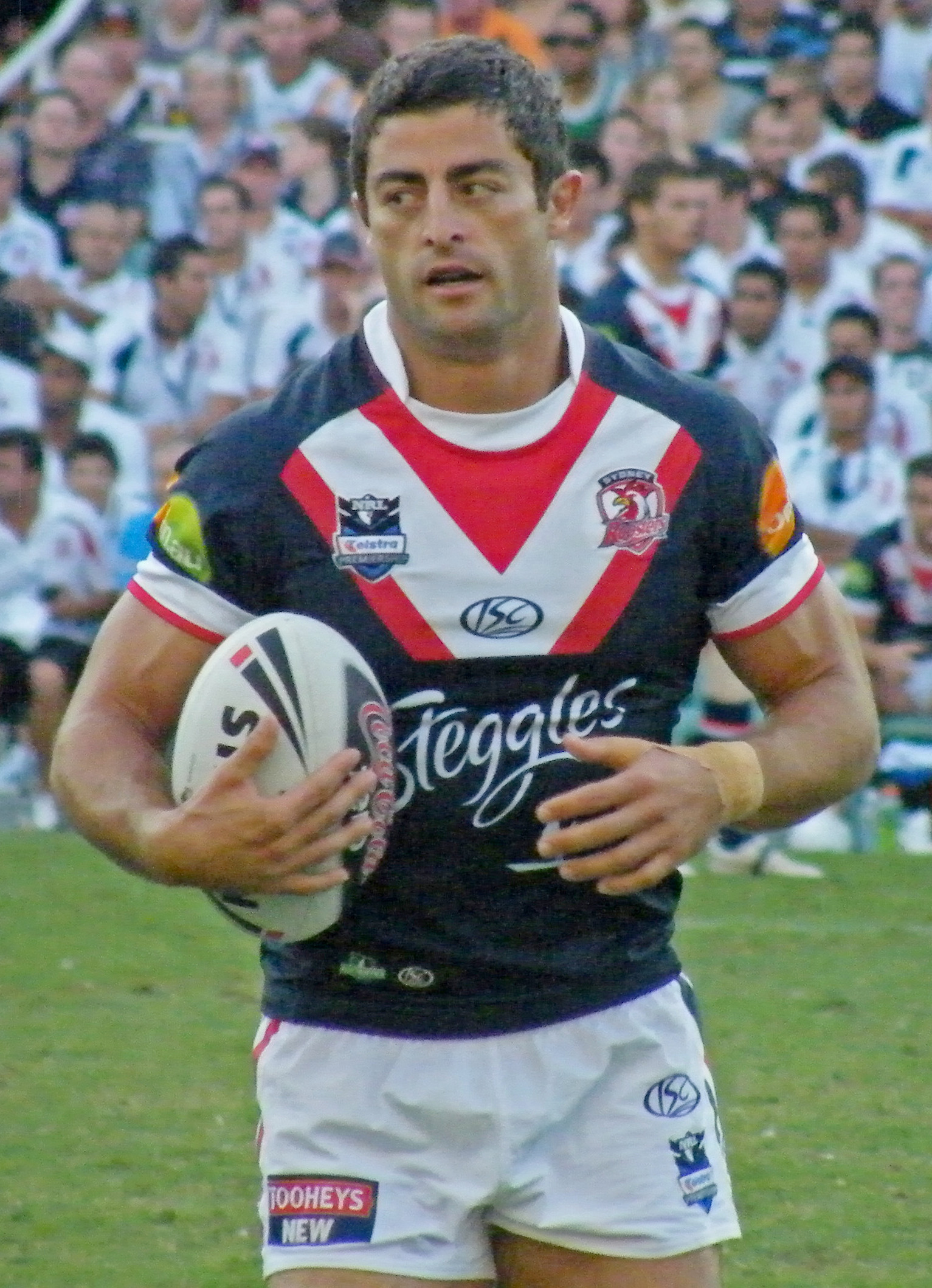 Anthony Minichiello of the Sydney Roosters RLFC.